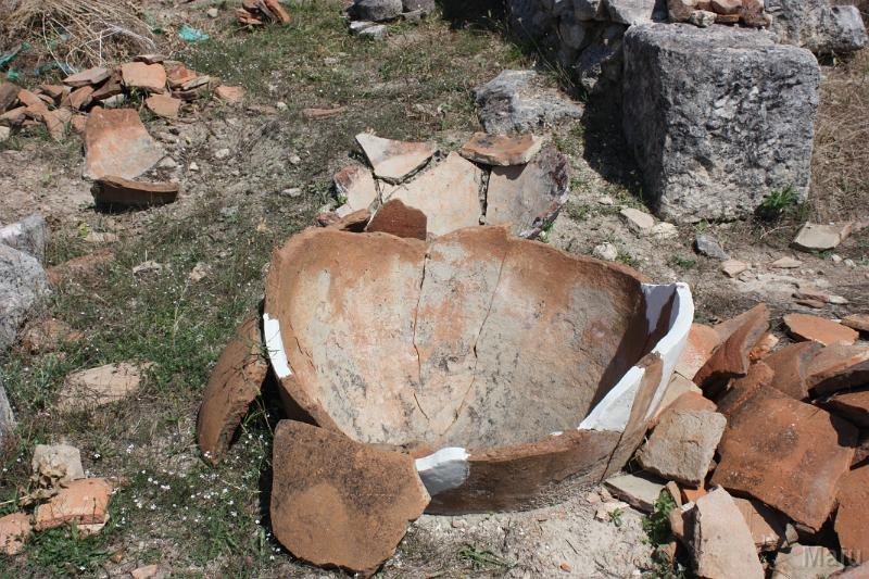 Byllis, archaeological site